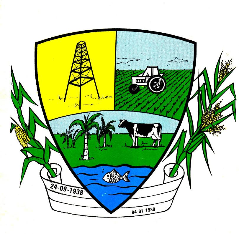 The coat of arms was designed by Manuel Ascanio and Gustavo Gonzalez.